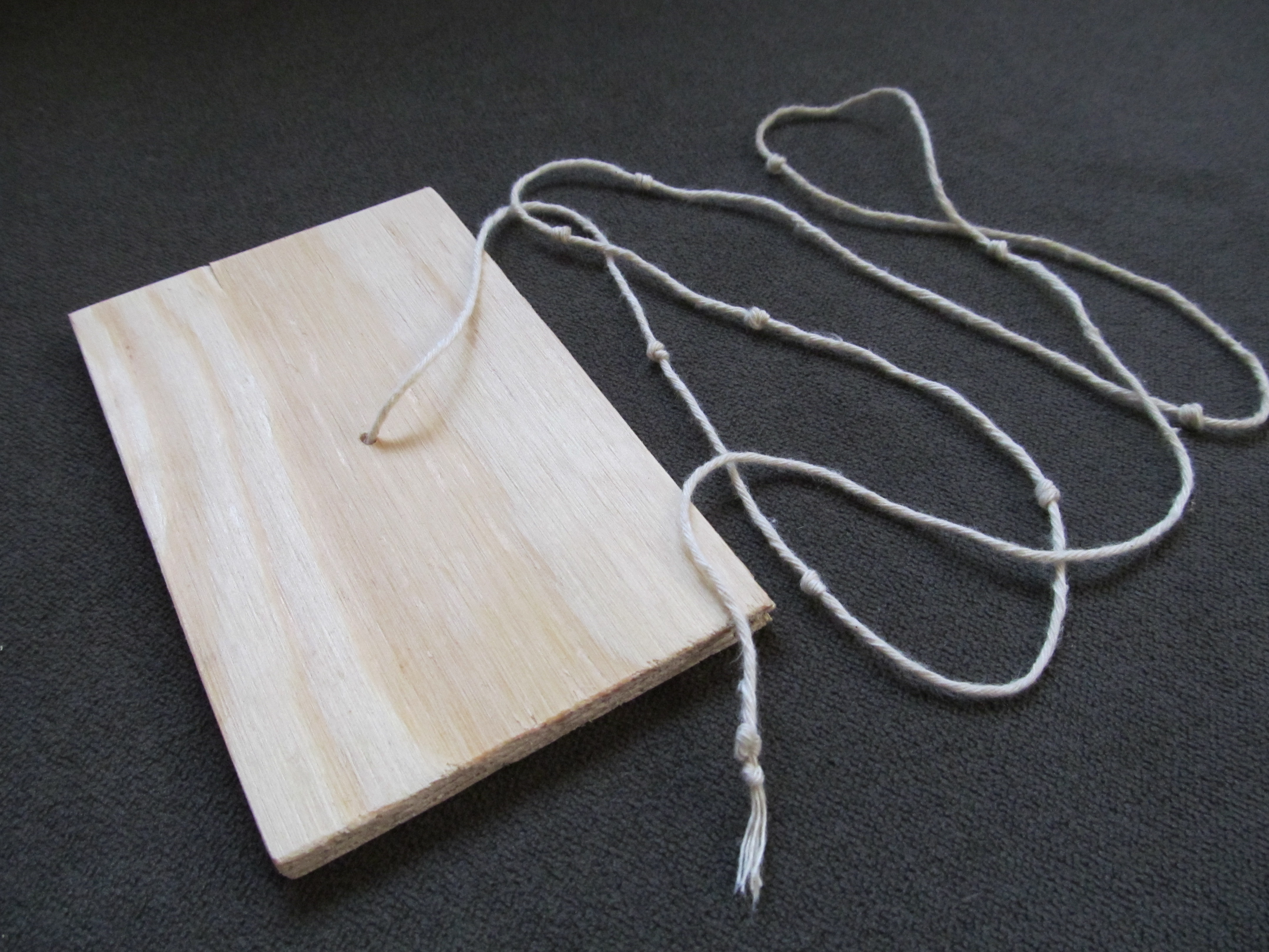 A simple wooden Kamal (navigation). Photographed on a gray background.